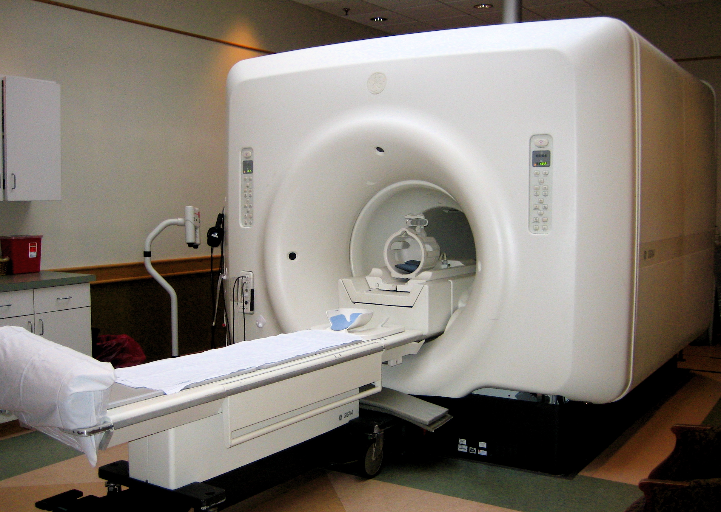 One of my kids said that sliding inside one of these things is like being inside a drawer in a file cabinet. It's a pretty tight fit. With my head locked into that clear plastic helmet I felt a bit like a space traveler being loaded into the pod.